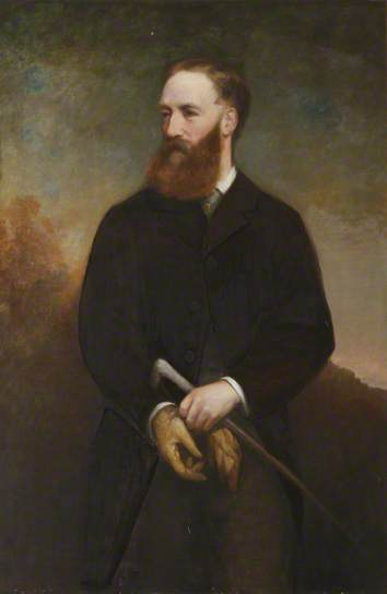 Portrait of James Arlosh (1834–1904), English Unitarian minister and benefactor.